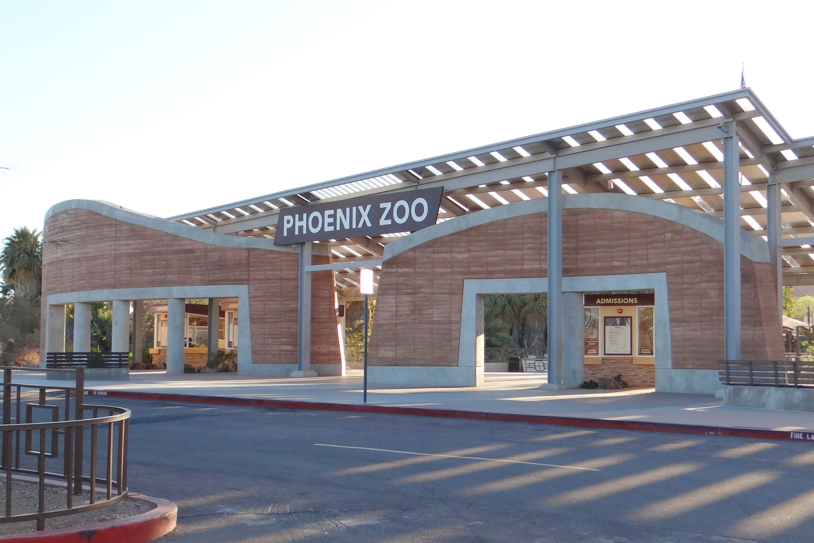 Phoenix Zoo entrance as of 2/15/14